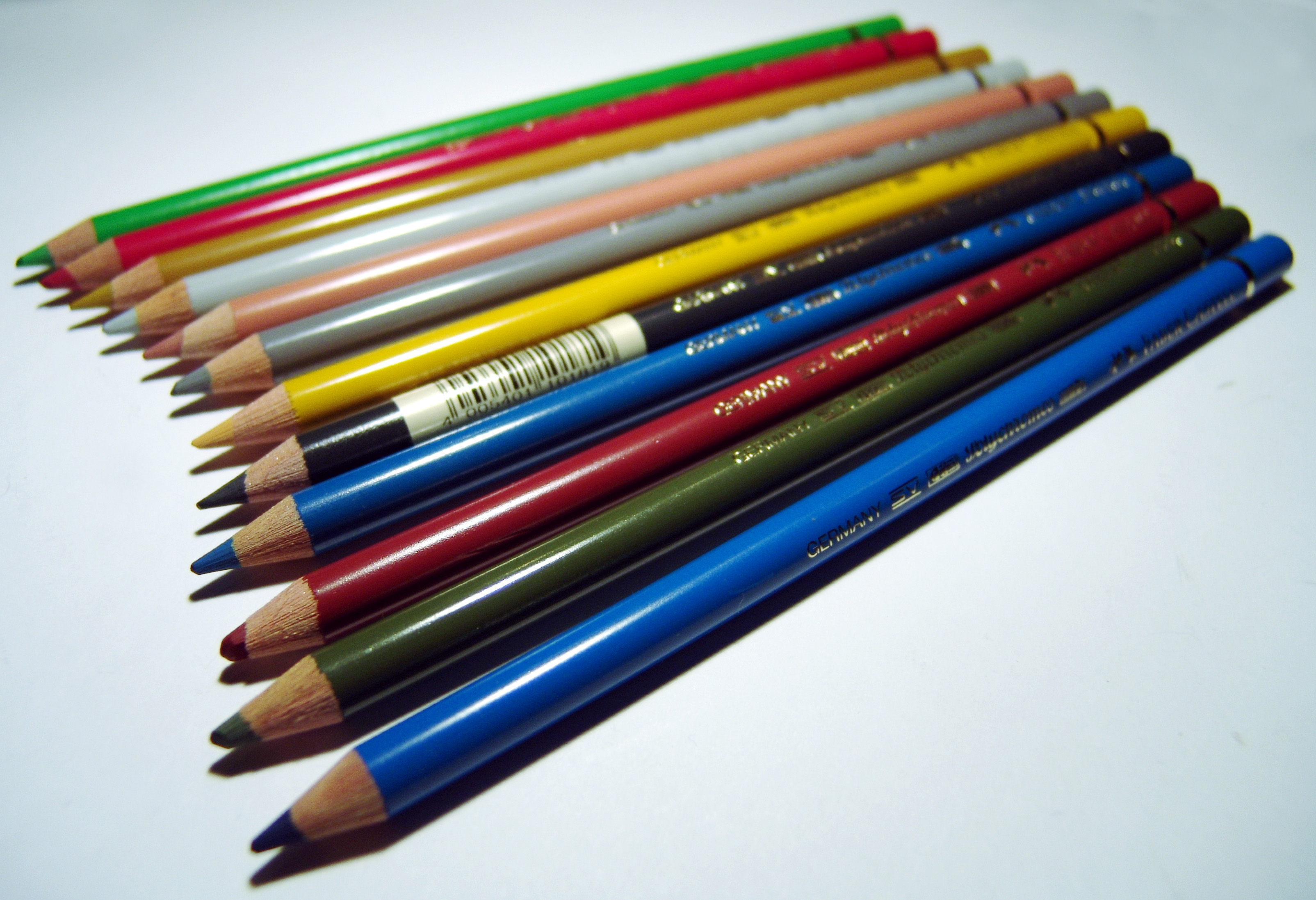 Faber_Castell_Polychromos